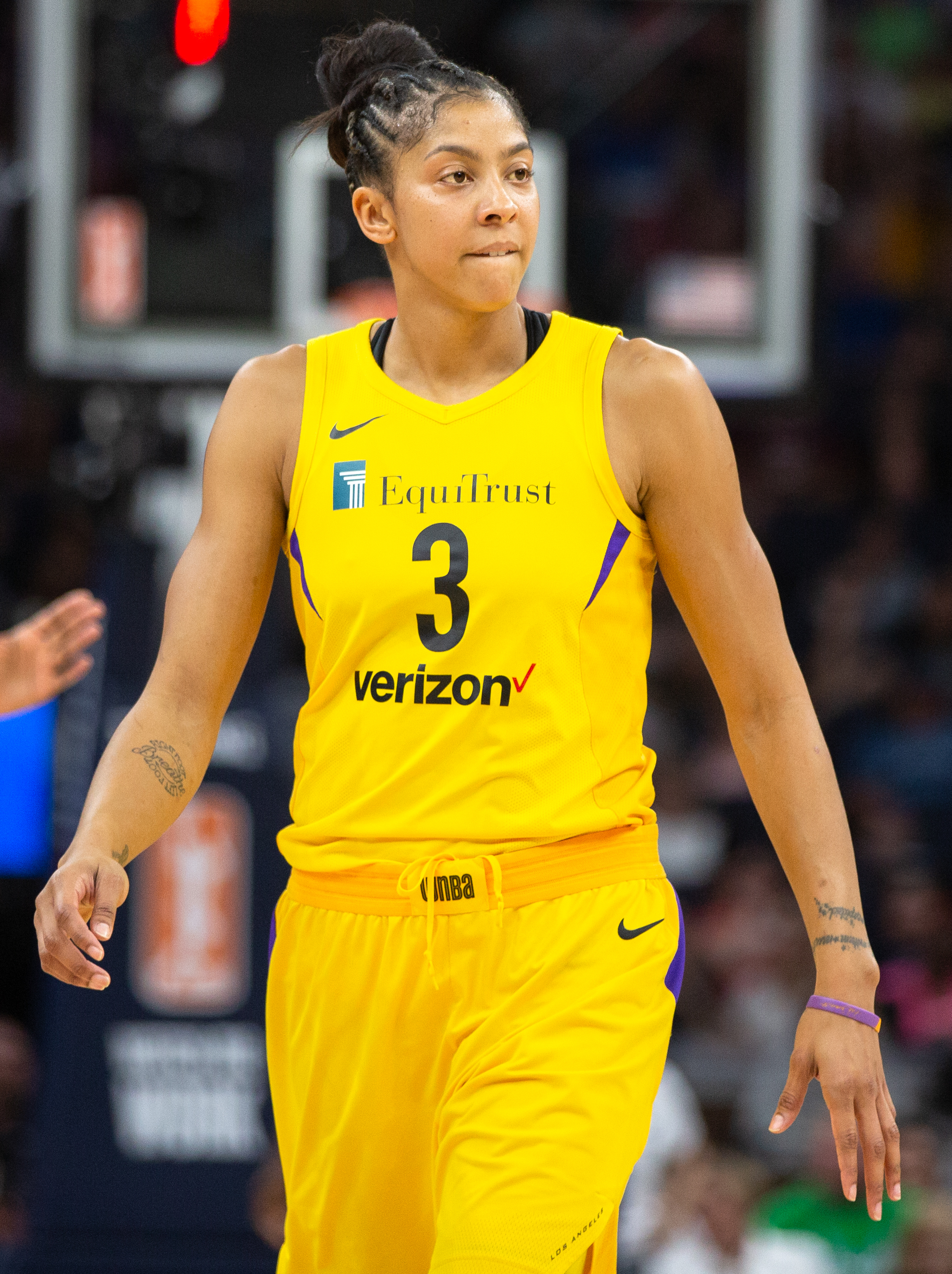 Los Angeles player Candace Parker during a game against the Minnesota Lynx